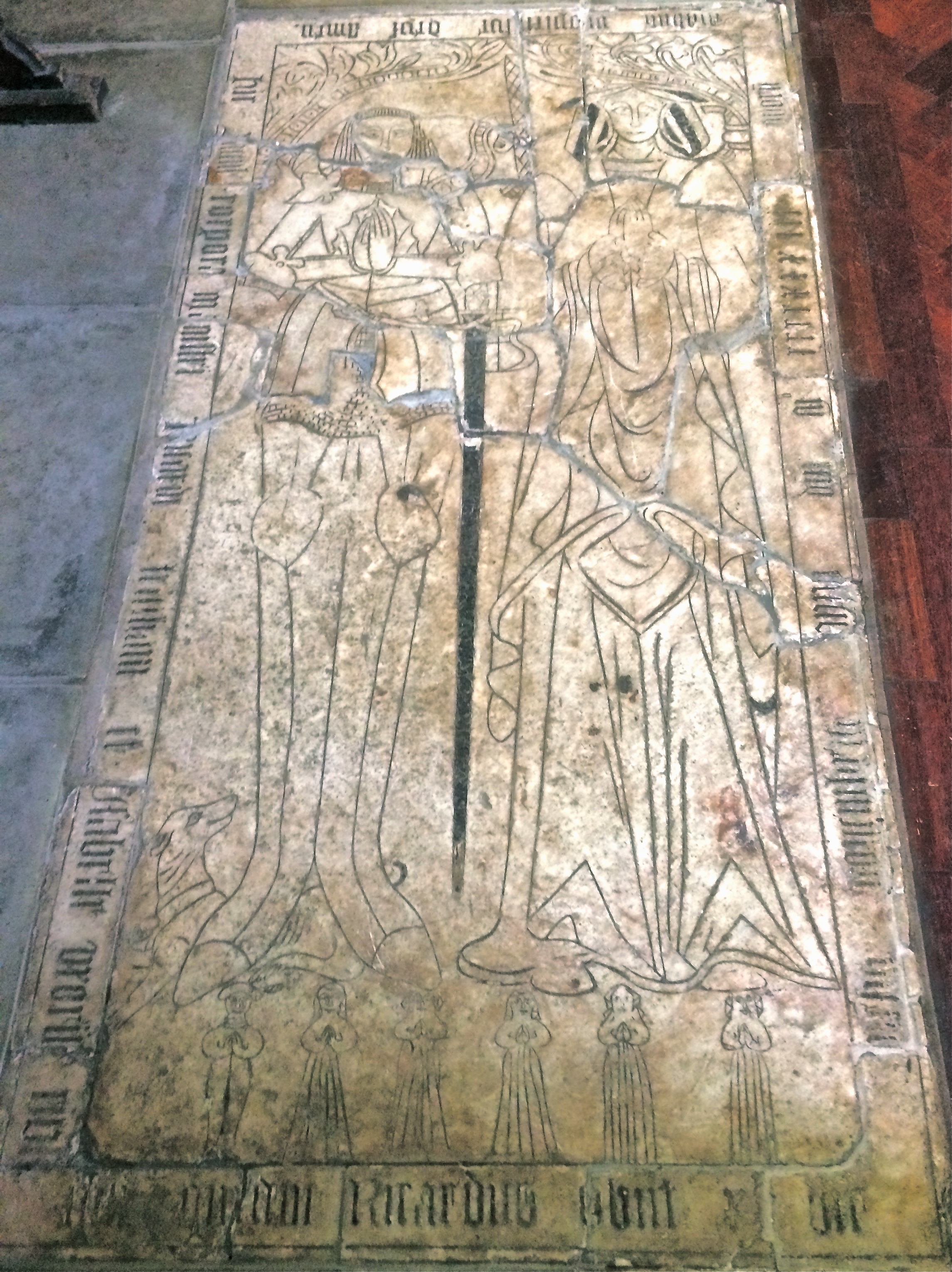 Alabaster slab of Richard Tresham & wife (nee Isabel Foulk), 1533 in Geddington Church.